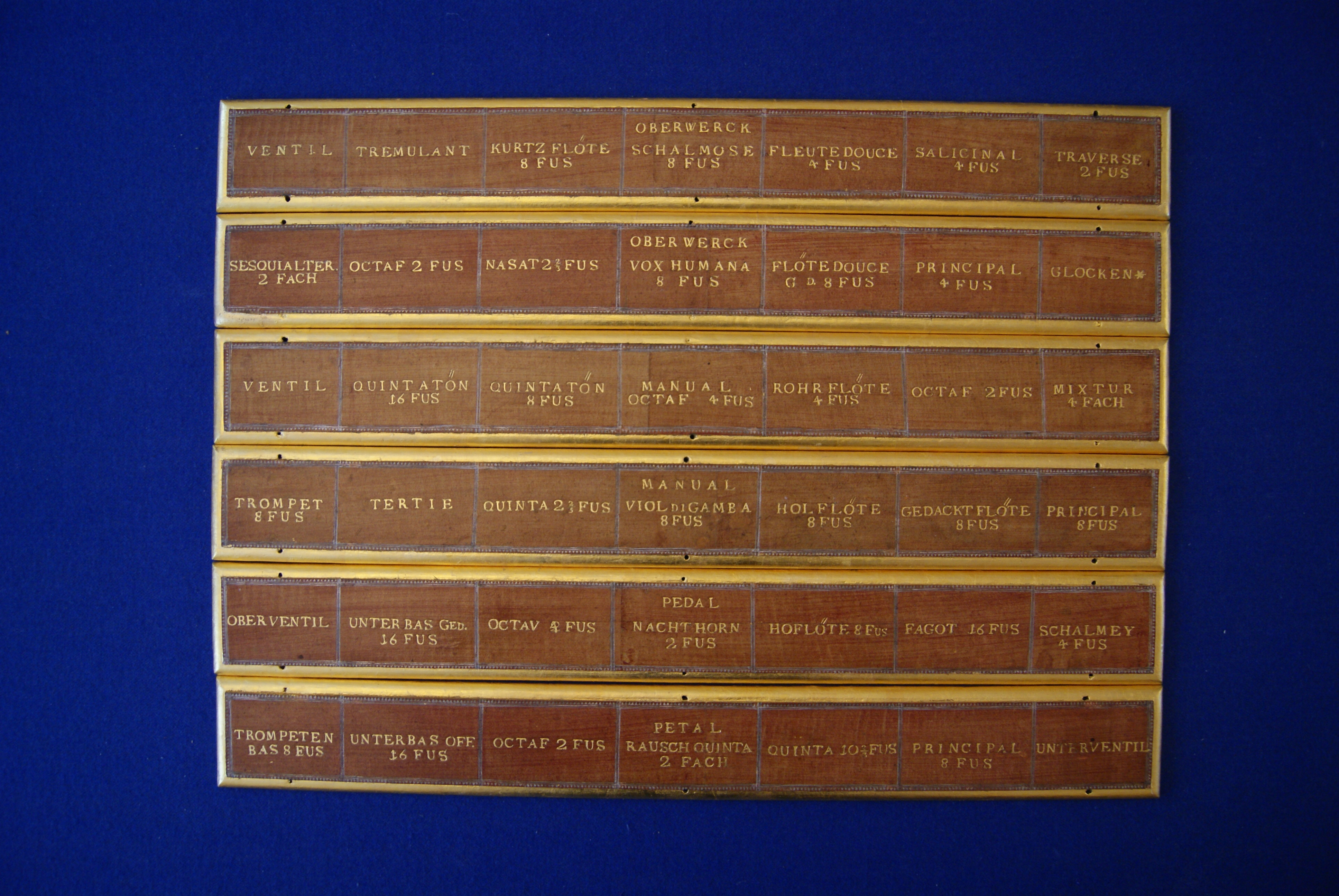 Restored stop labels of the Andreas Hildebrandt organ from 1717-1719 in Pasłęk